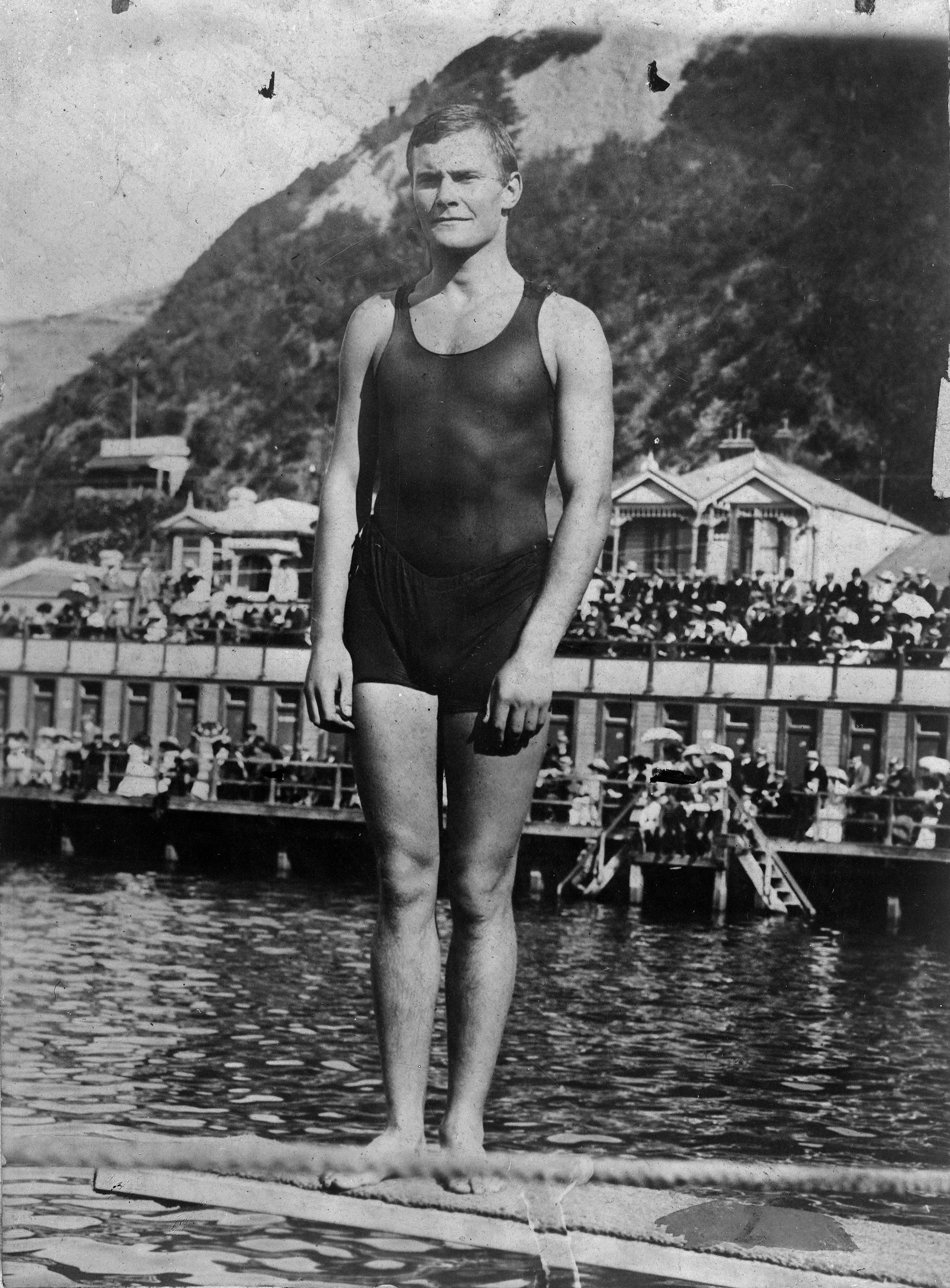 Bernard Cyril Freyberg (later Sir Bernard) on a diving board over Te Aro Baths. what appears to be the sea. The steep hills in the background indicate that the location is Oriental Bay possibly Wellington. In the background a large crowd is watching the events taking place. (Bernard Freyberg was an assistant to Mr McKenzie (dentist) in Levin from 1913 to 1914) The Te Aro Baths were replaced by The Freyberg Pool opened in 1963.